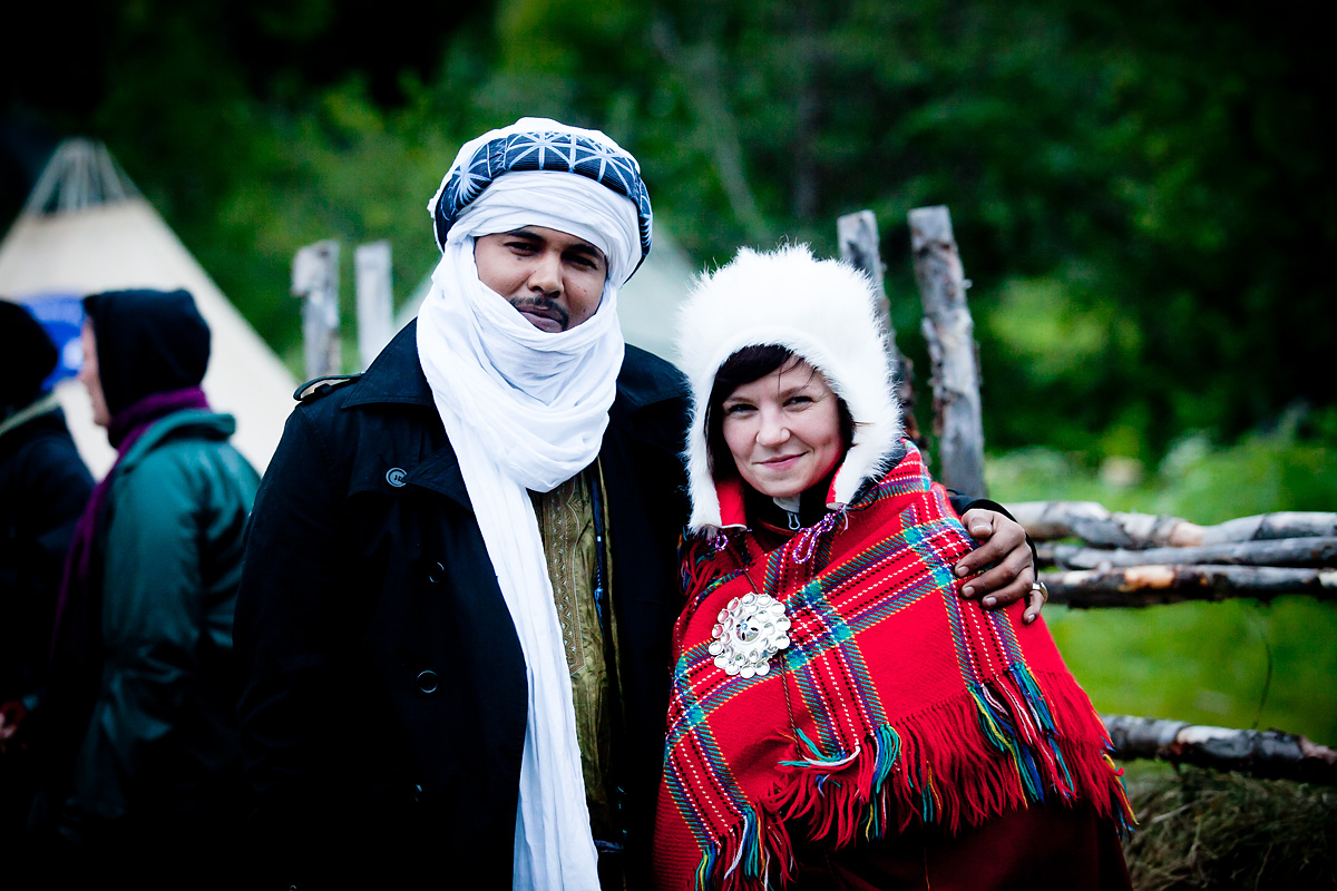 People on Riddu Riddu. Photo: Marius Fiskum